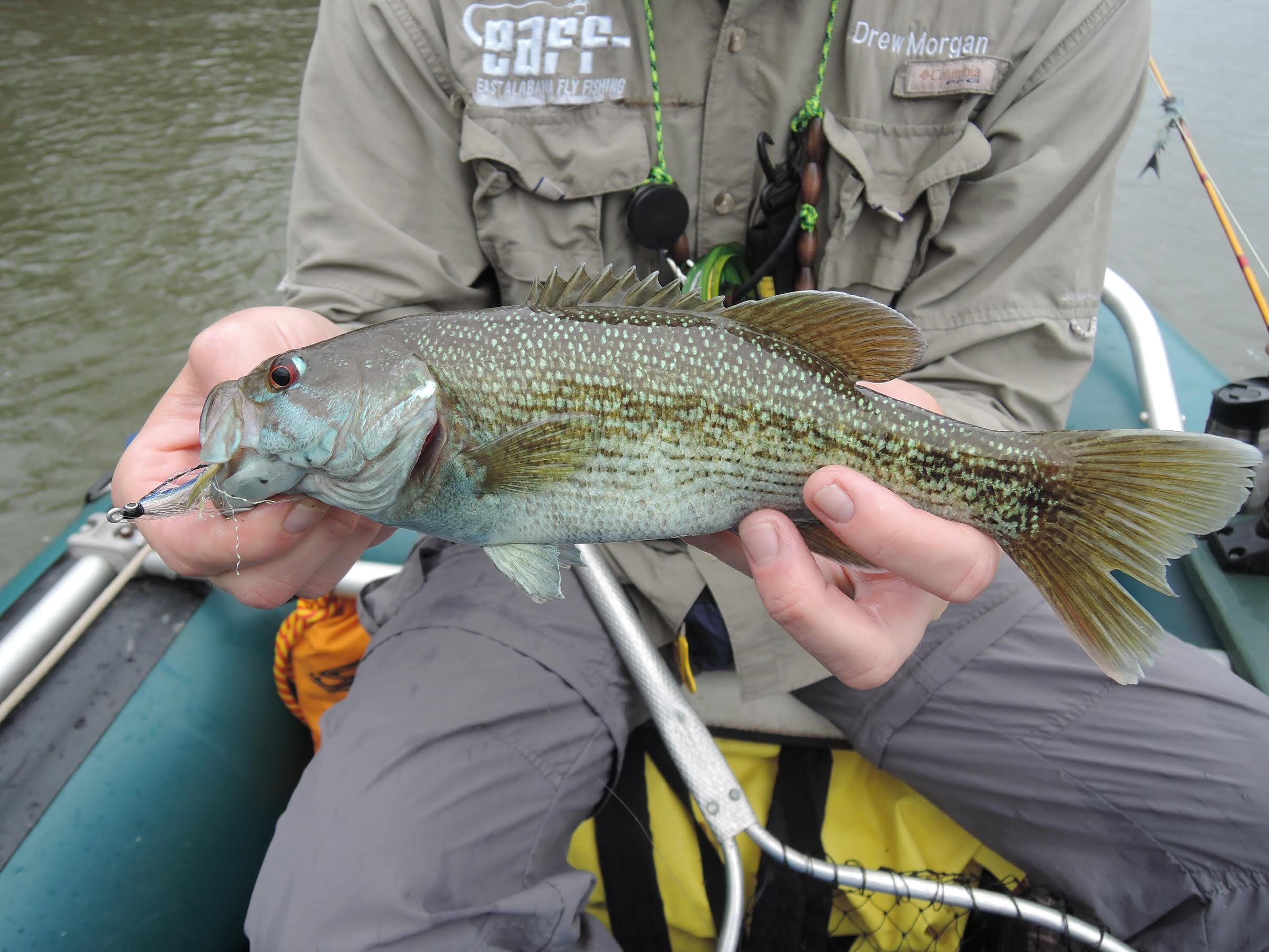 image of a redeye bass (micropterus tallapoosae).